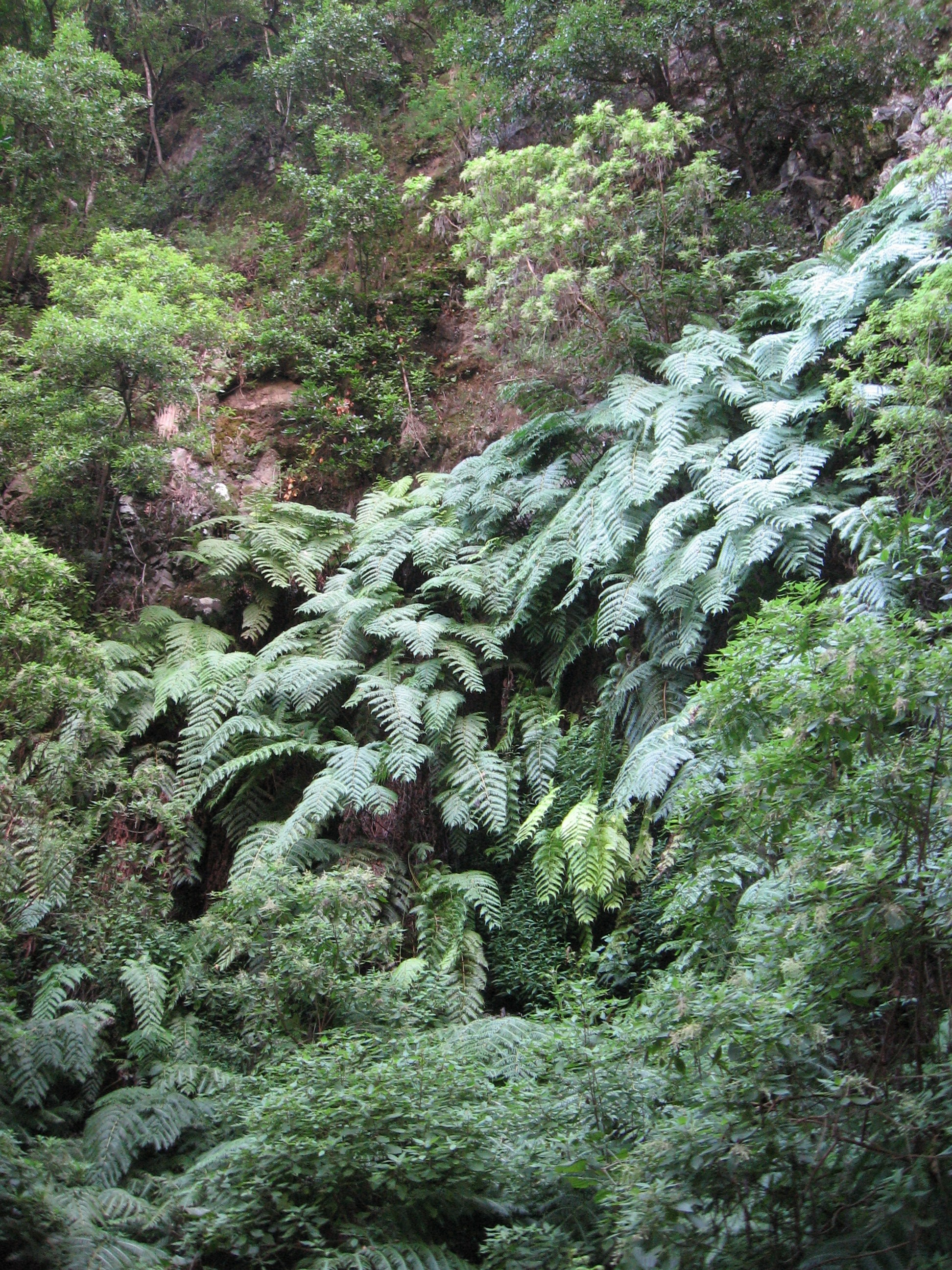 Woodwardia radicans, La Palma, Canary Islands. 2012-01-04 La Palma (241) Waterfall walk_ferns